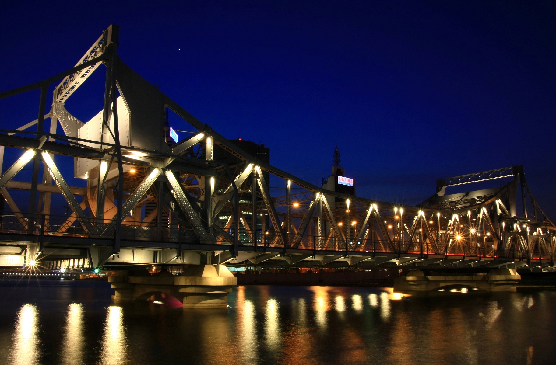 Jiefang Bridge in Tianjin